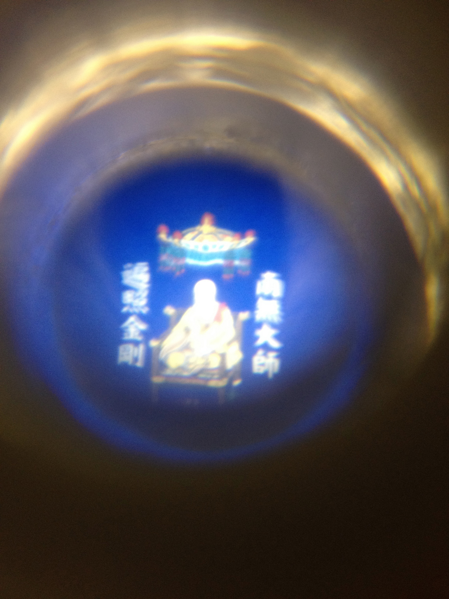 This is an example of a Buddhist prayer bead in Japan that has a picture inside the main bead. This photo is of Kukai, founder of the Shingon school, though other Japanese Buddhist schools may have similar beads containing Buddhist imagery inside. The text on the left and right is a common mantra devoted to Kukai.